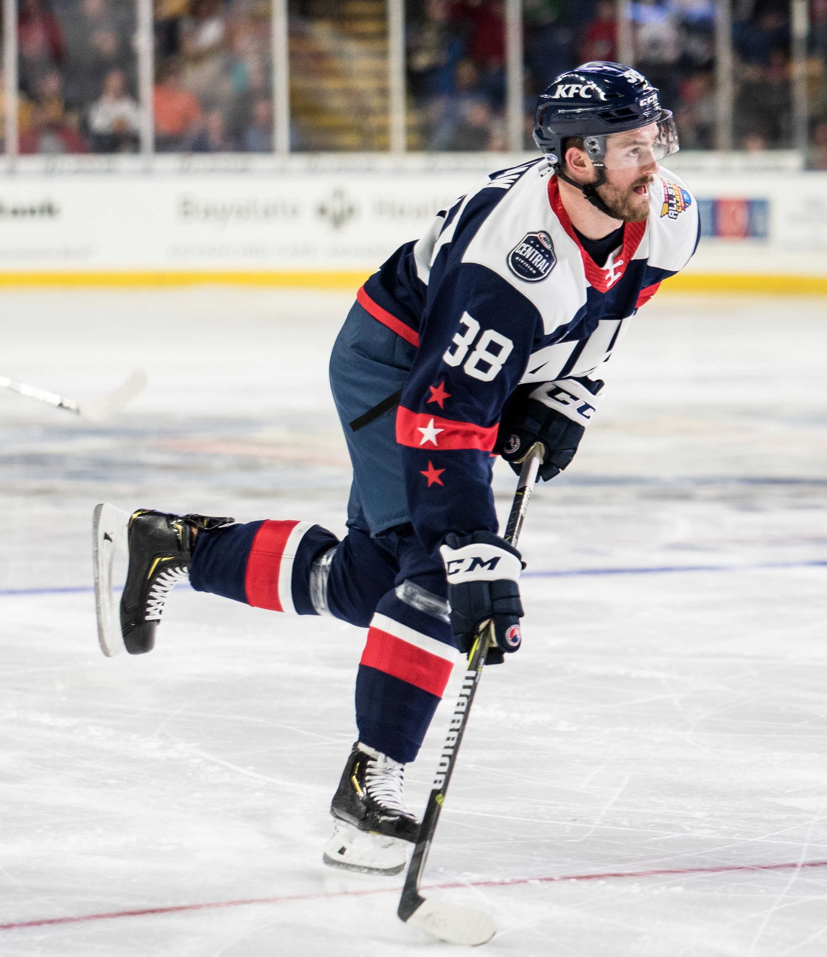 Photo by: China Wong